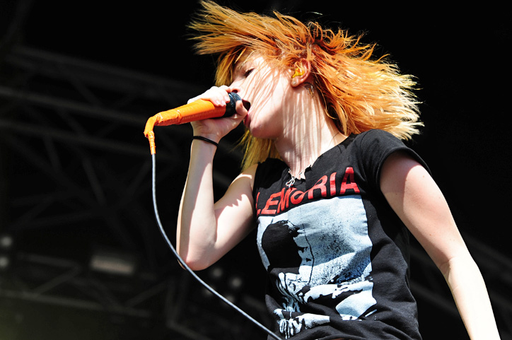 Paramore @ Steel Blue Oval (1/3/2010)